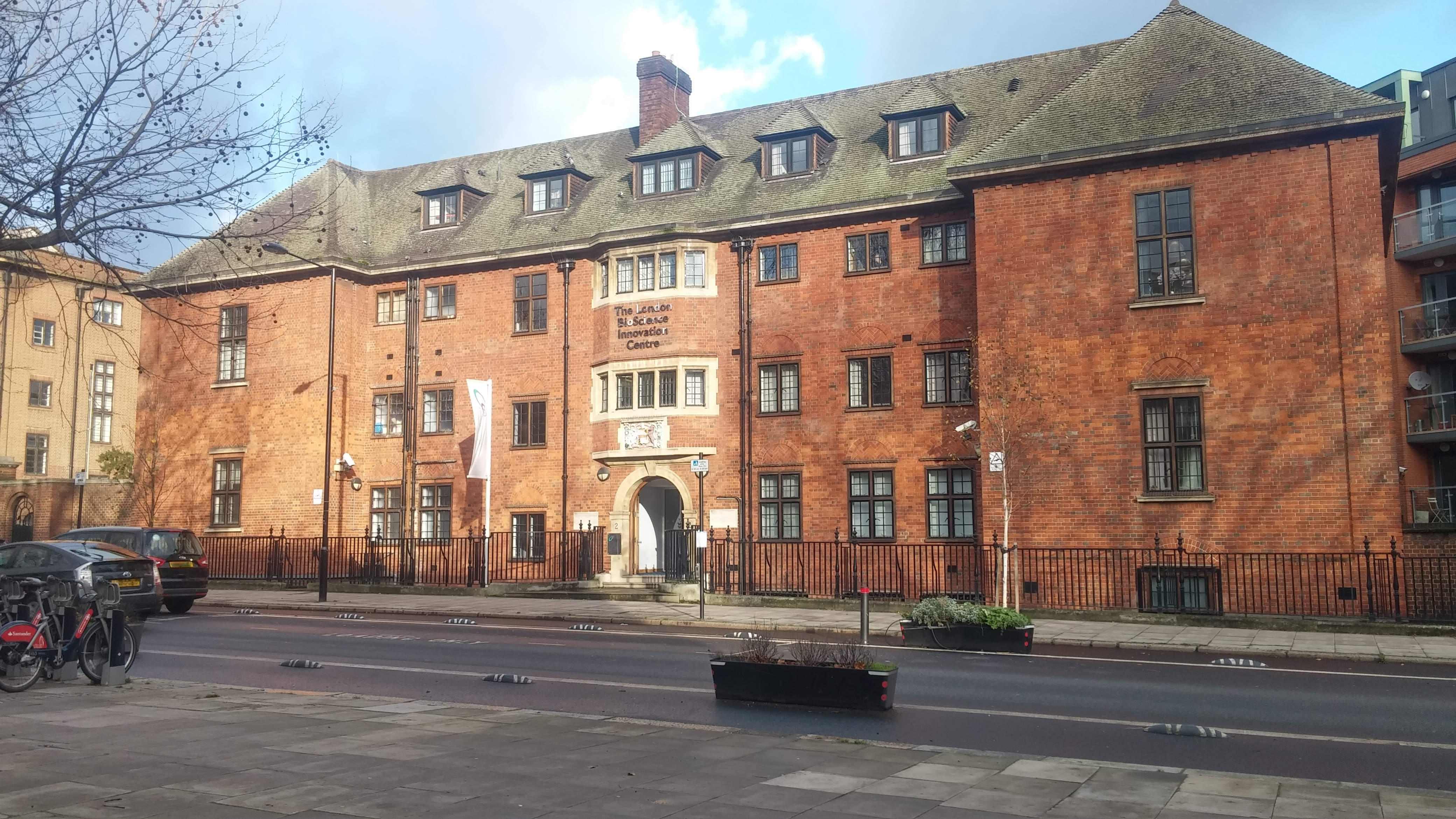 LBIC, the 'London BioScience Innovation Centre' is a hub providing laboratory and office facilities for biotech start-up companies based in Central London.